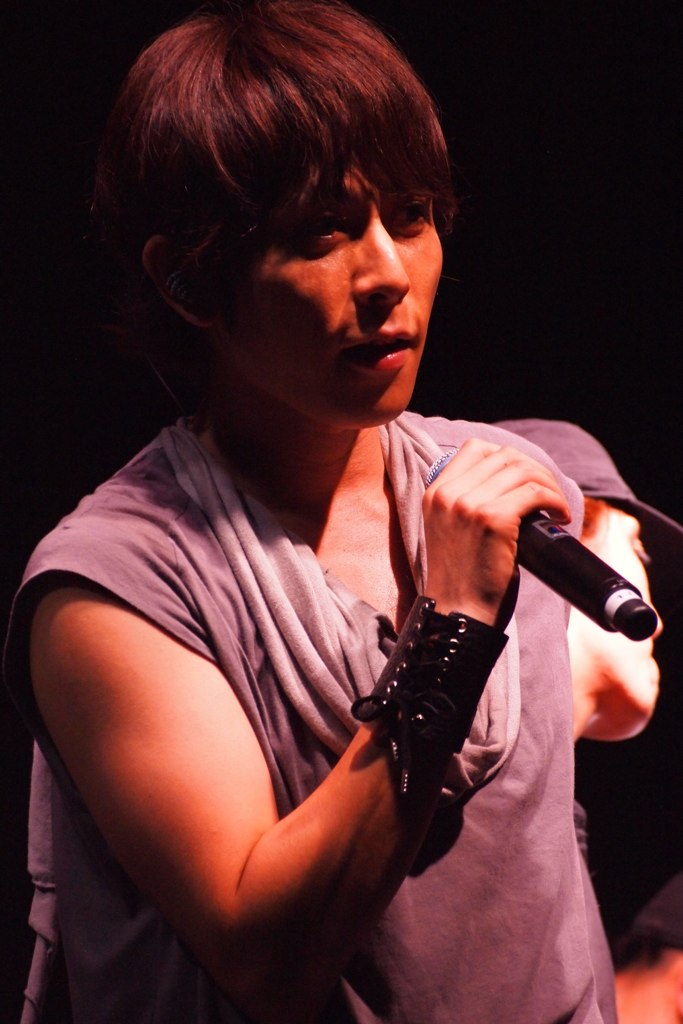 Chemistry Concert at Otakon 2011 - 48